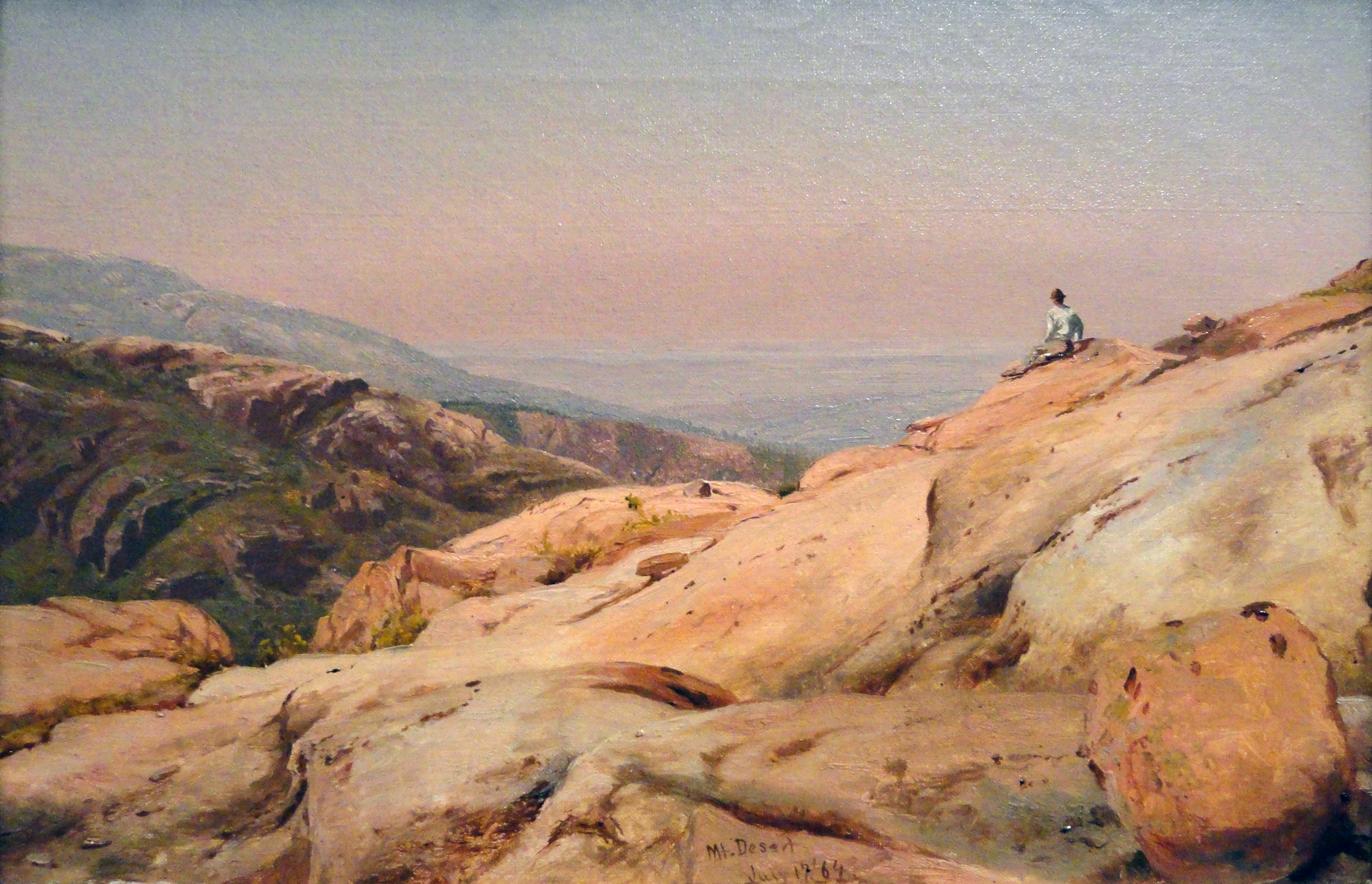 Mount Desert Island, Maine, by Jervis McEntee, 1864, oil on canvas - National Gallery of Art, Washington, DC, USA. This painting is in the public domain because the artist died more than 70 years ago.